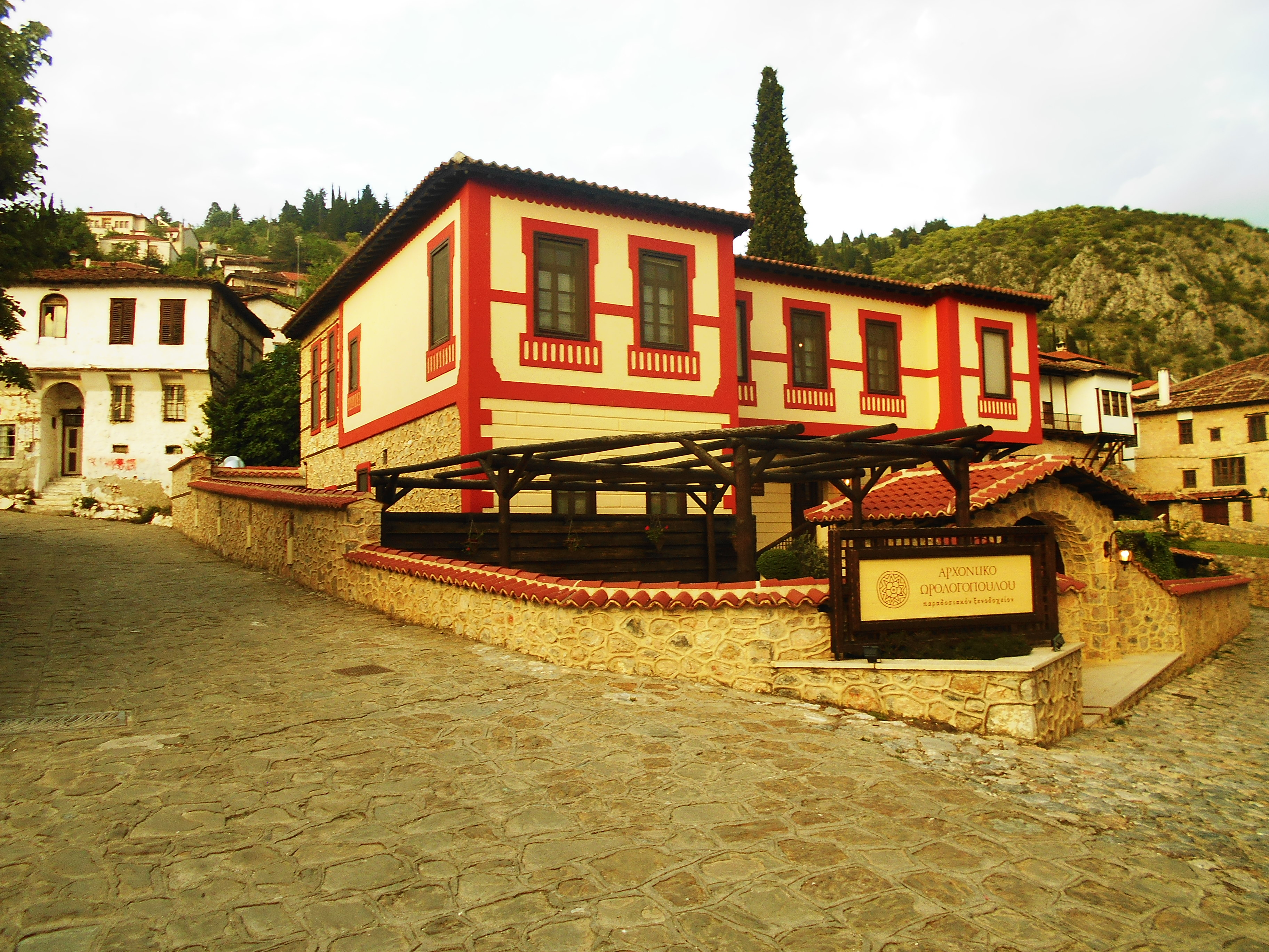 This is a photography of Natura 2000 protected area with ID Kastoria